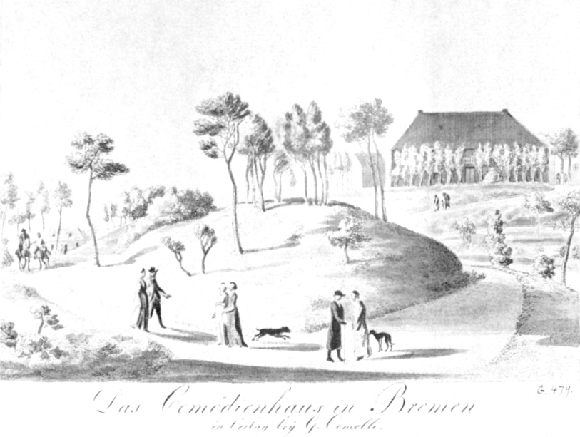 View of Bremen's first theatre building in the Wallanlagen (rempart park)